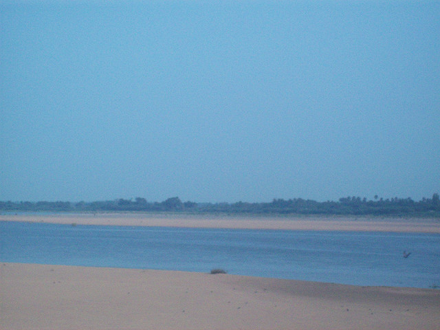 River